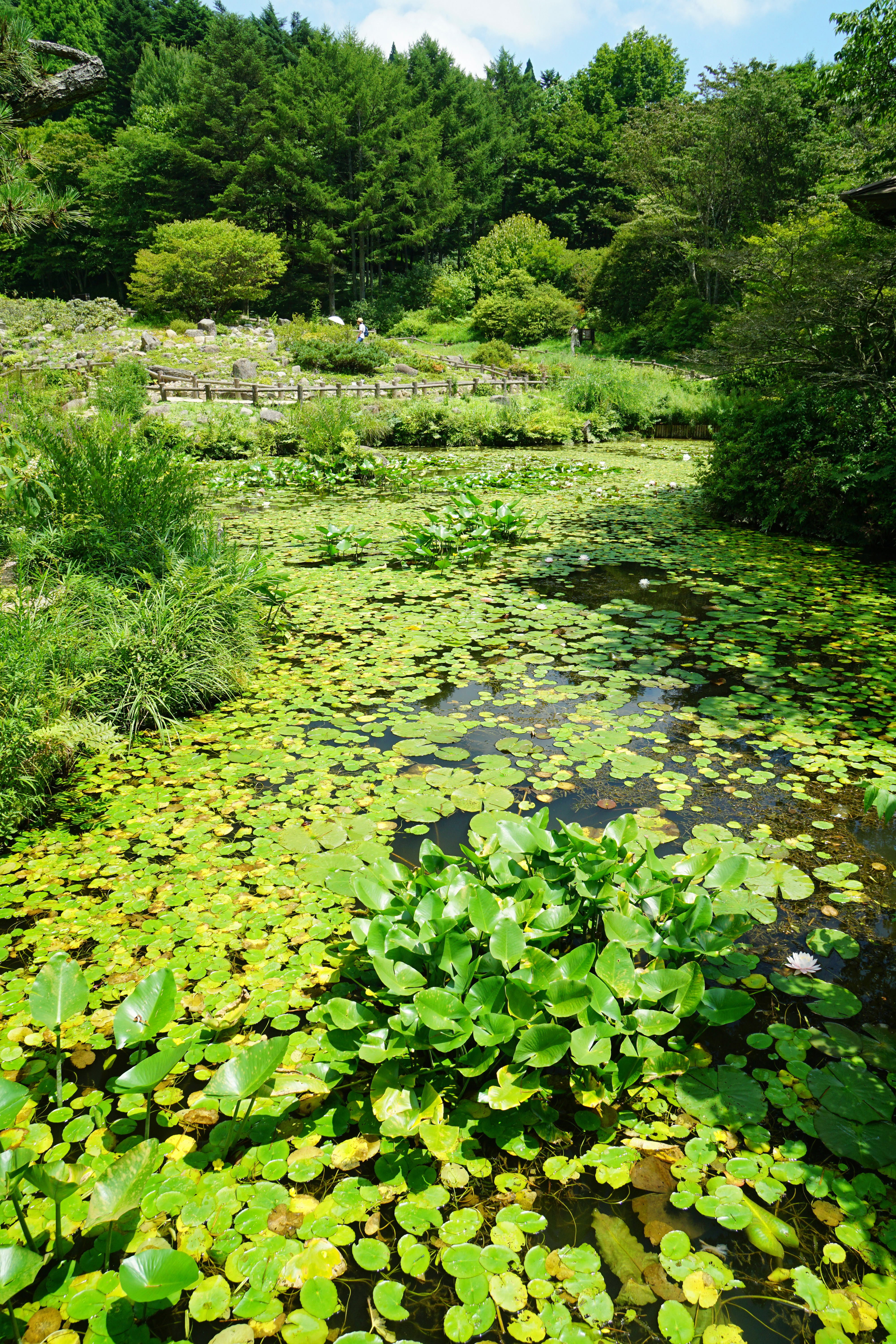 Rokkō Alpine Botanical Garden in Kobe, Hyogo prefecture, Japan